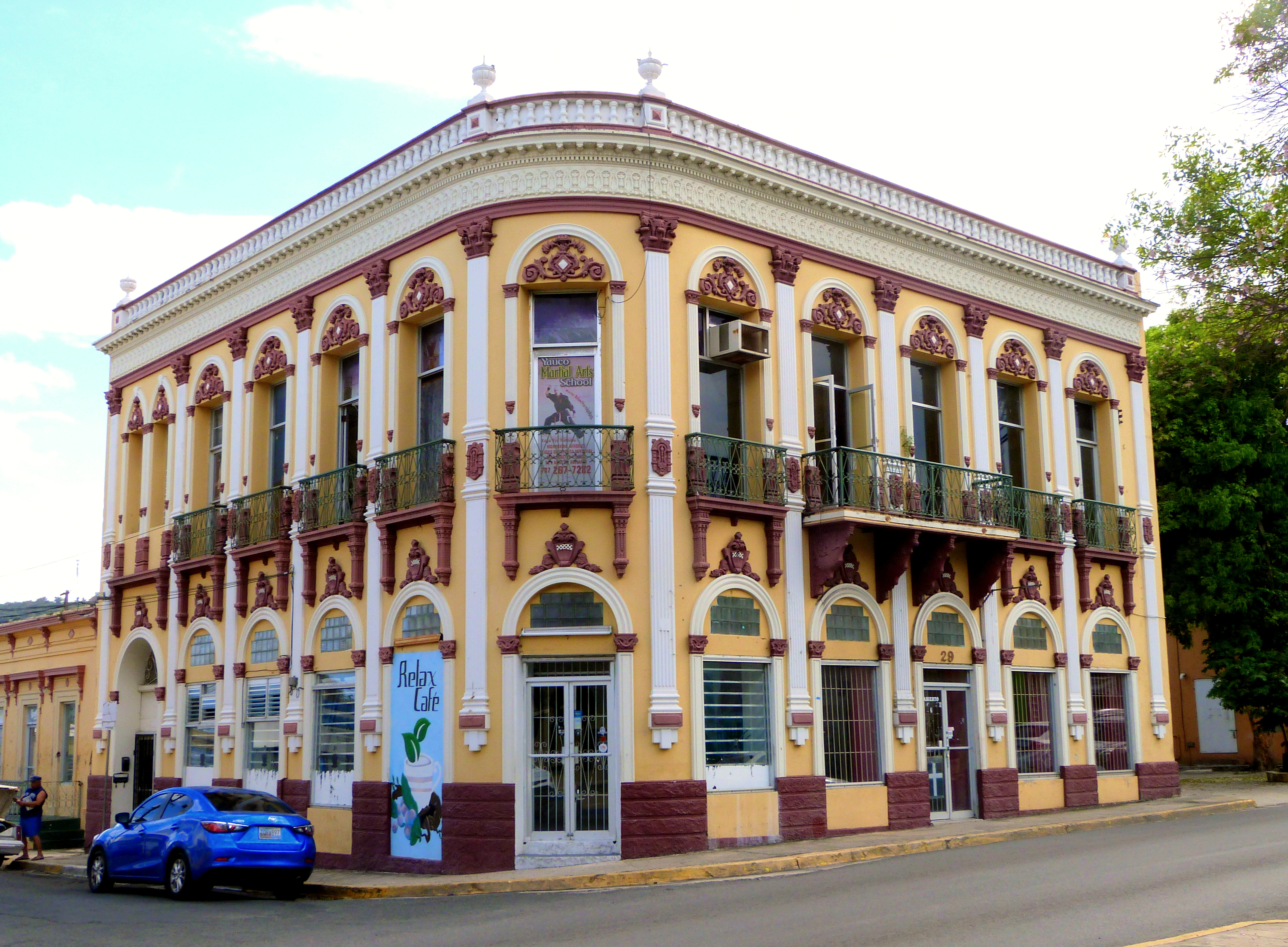 The historic Casa Filardi (built 1916), located at Calle 25 de Julio #29 in Yauco, Puerto Rico, is listed on the U.S. National Register of Historic Places.